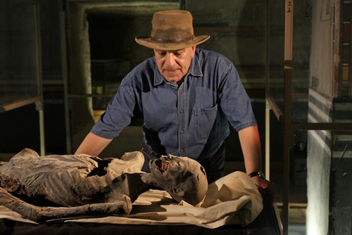 Zahi-mummies